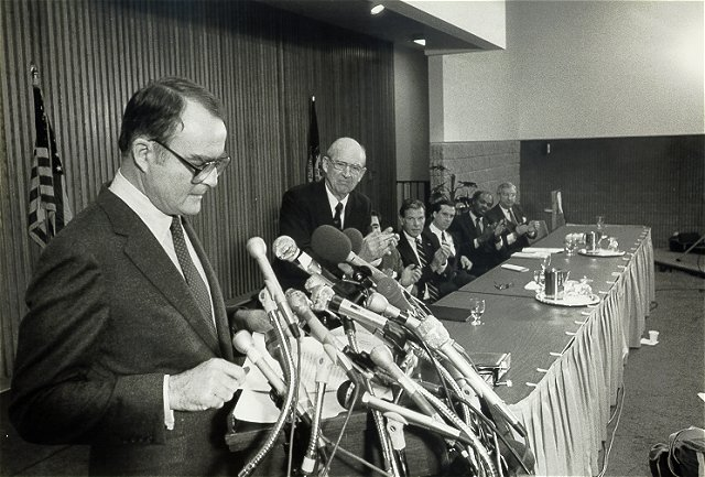 Caption: "Saving the Bay Together: EPA Administrator William Ruckelshaus speaks to a conference at which an agreement was reached to set up an executive council to carry out a joint cleanup of the Chesapeake Bay. With Ruckelshaus are (l-r) John Gottschalk, president of the Citizens Program for the Chesapeake Bay; Virginia Gov. Charles S. Robb; Maryland Gov. Harry Hughes; Pennsylvania Lt. Gov. William Scranton, Ill; Washington, D. C. Mayor Marion Barry: and Virginia State Sen. Joseph V. Gartland, Chairman of the Chesapeake Bay Commission."Conference held at George Mason University, Fairfax, Virginia.